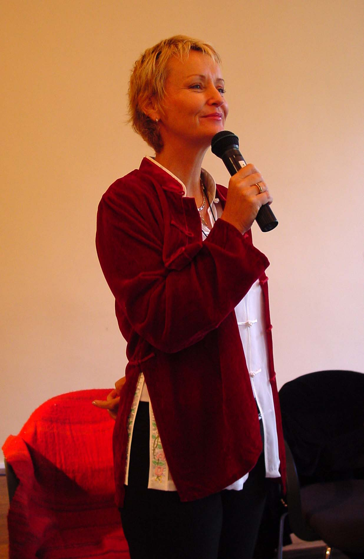 Jasmuheen in Belgium 2004